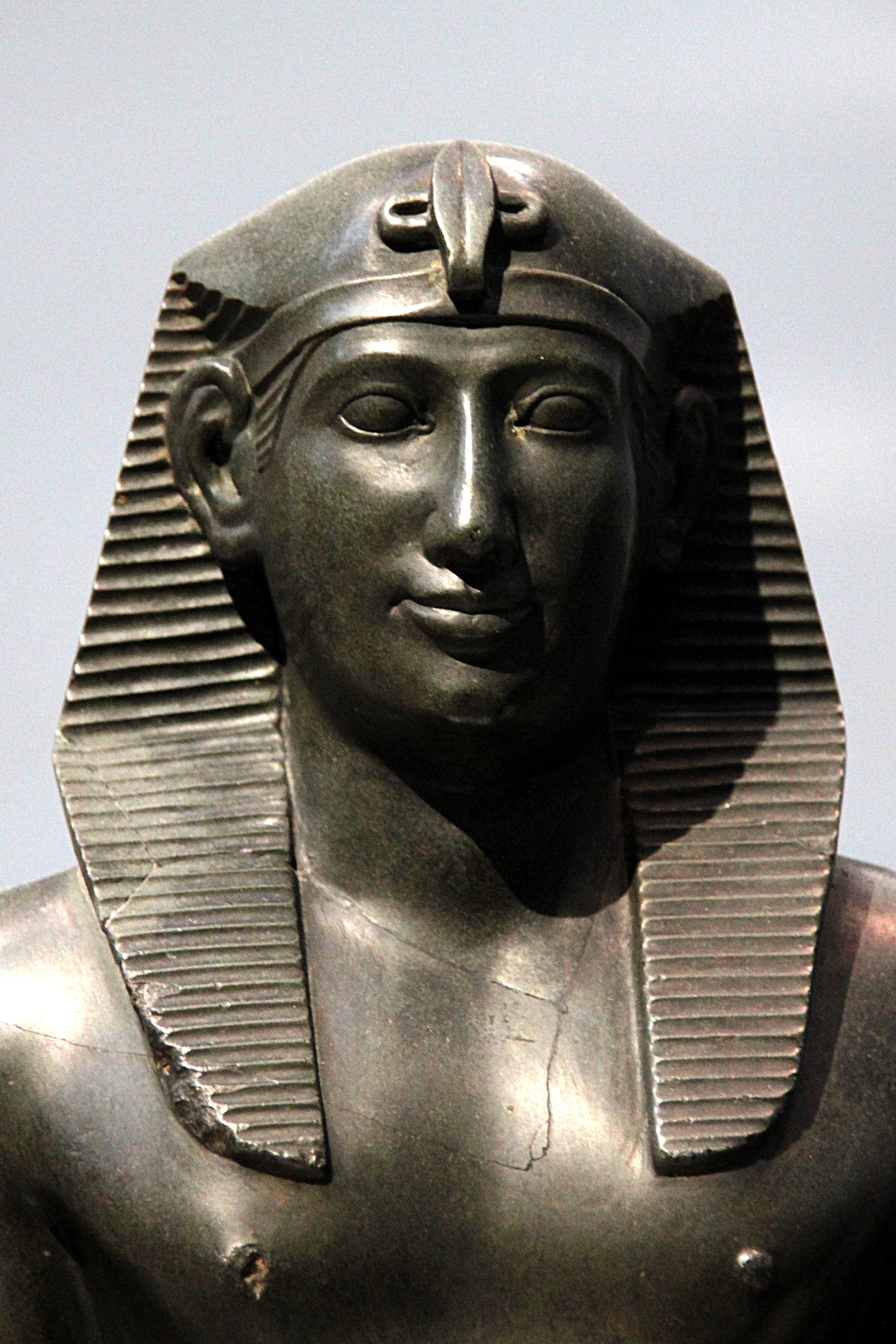 Closeup of a statue of pharaoh Psamtik II, exhibited in the Louvre Lens. Reign of Psamtik II (595-589 BCE), 26th Dynasty, Late Period.